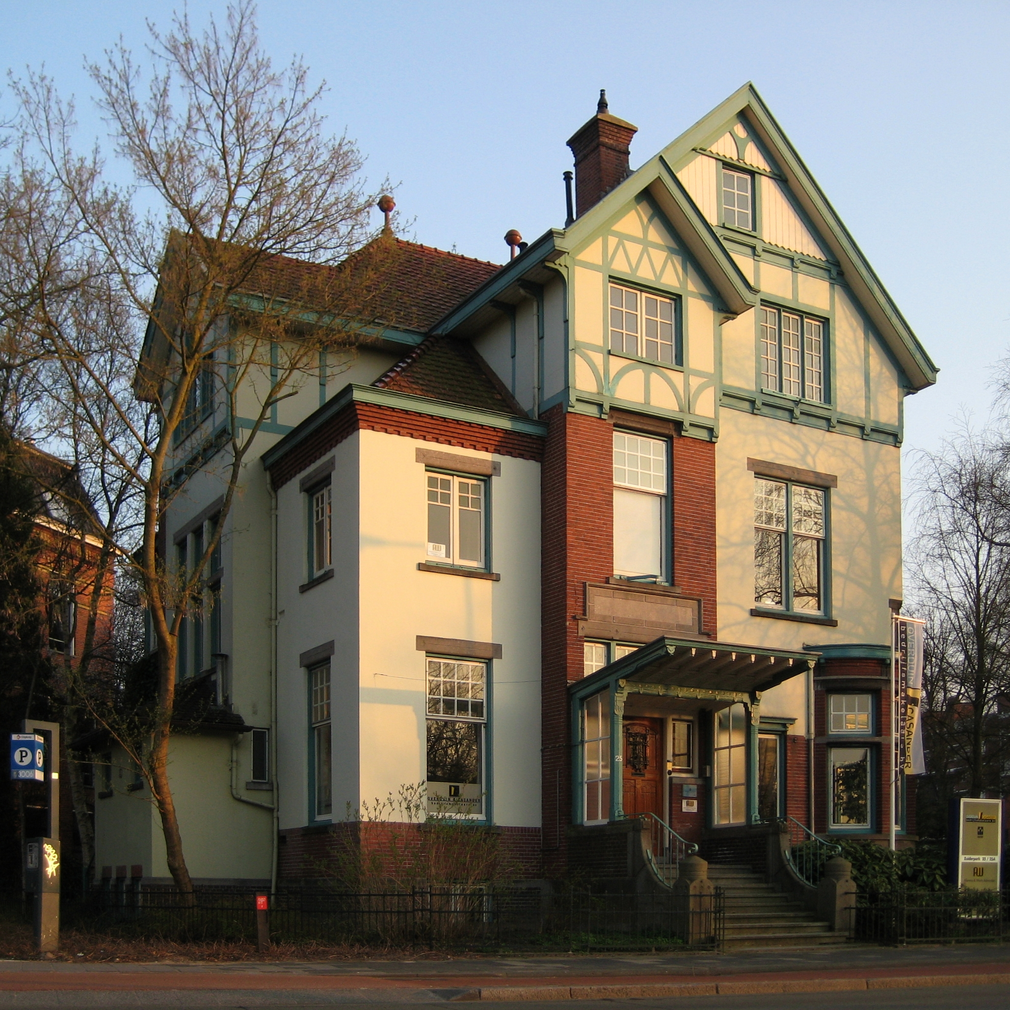 Villa (1905) in the Dutch city of Groningen.